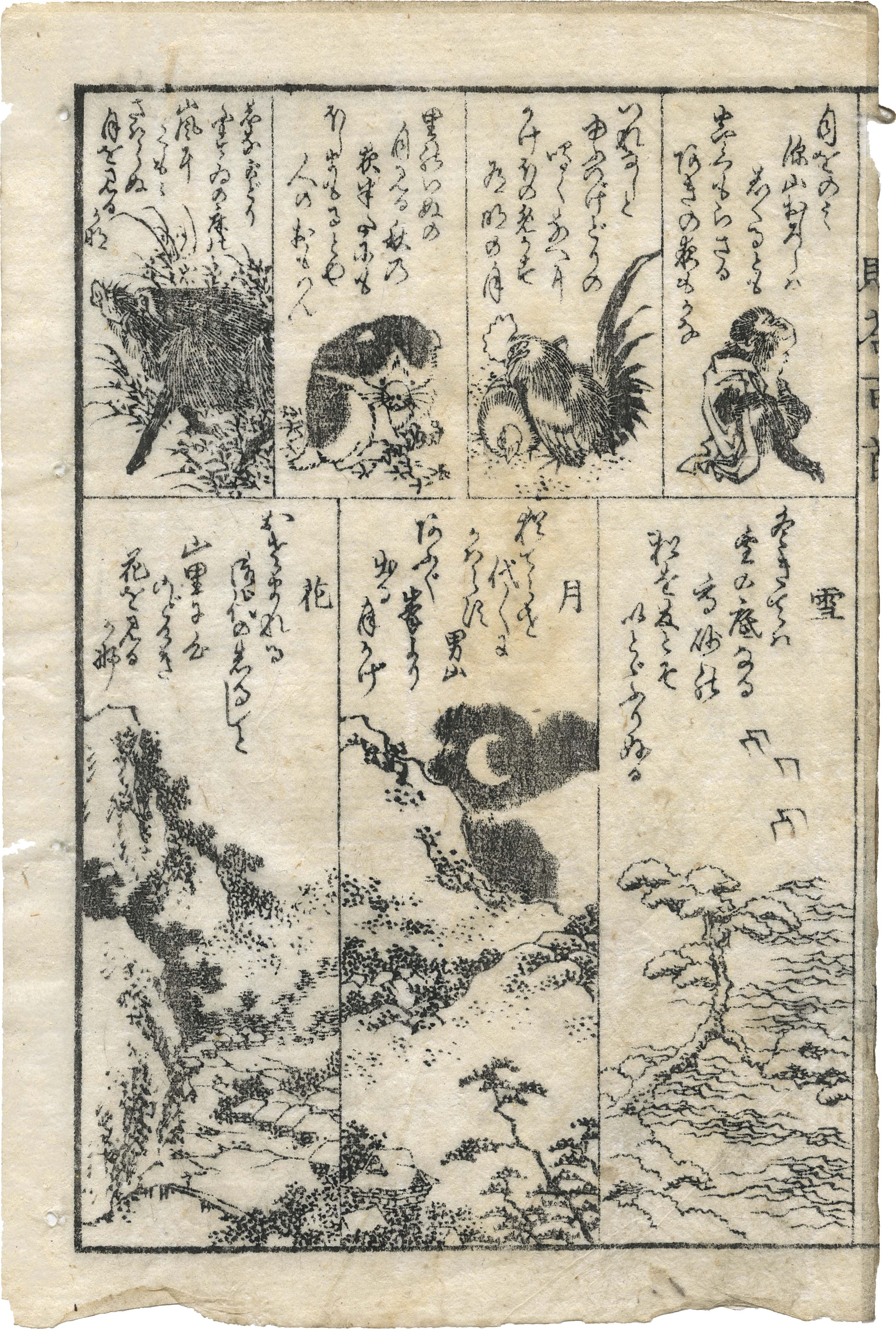 Reminder: No known copyright restrictions. Please credit UBC Library as the image source. For more information see Japanese Title:贈答百人一首& ; 贈答百人一首.全 ; 贈答百首 Date: Kaei 6 [1853] Creator: Henshu_ Ryokutei Senryu_ ; kuchiga Katsushika Isai ; Sh_z_ Ichiyu_sai Kuniyoshi, Ichimo_sai Yoshitora, Gyokuransai Sadahide, Baicho_ro_ Kunisada, Ichiyo_sai Toyokuni Access Identifier: Mostow_005 Source: Original Format: Professor Joshua Mostow Private Collection. One Hundred Poets (Hyakunin isshu) Collection. Permanent URL